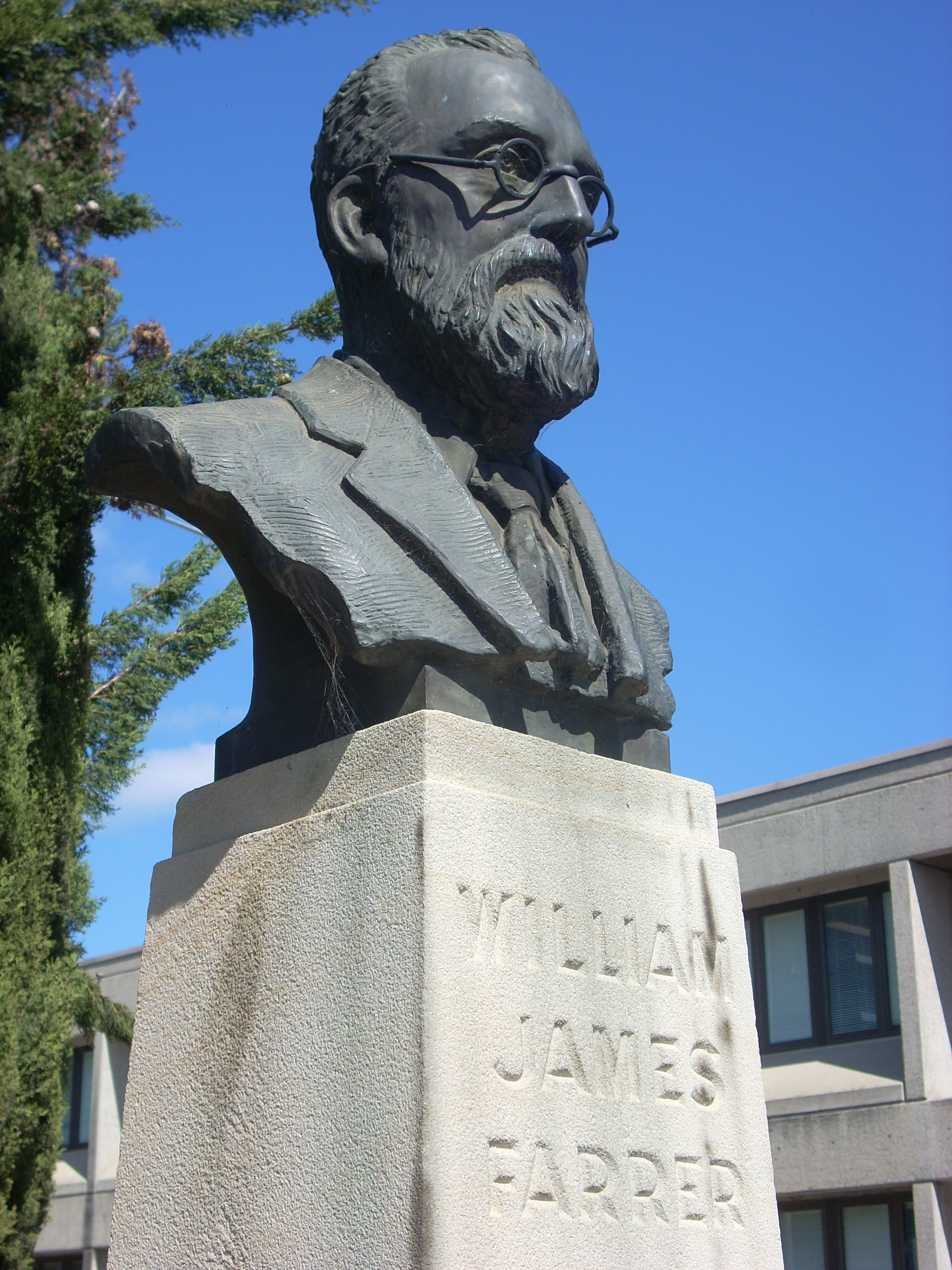 Statue of William Farrer by Rayner Hoff in Queenbeyan in NSW, Australia